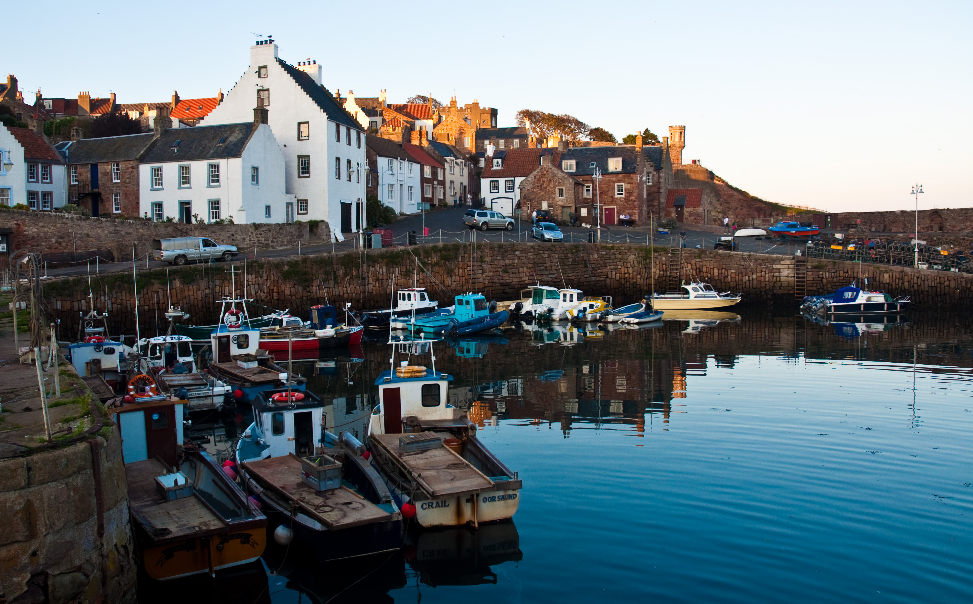 Crail Harbour, Fife, Scotland, 28 Sept. 2011